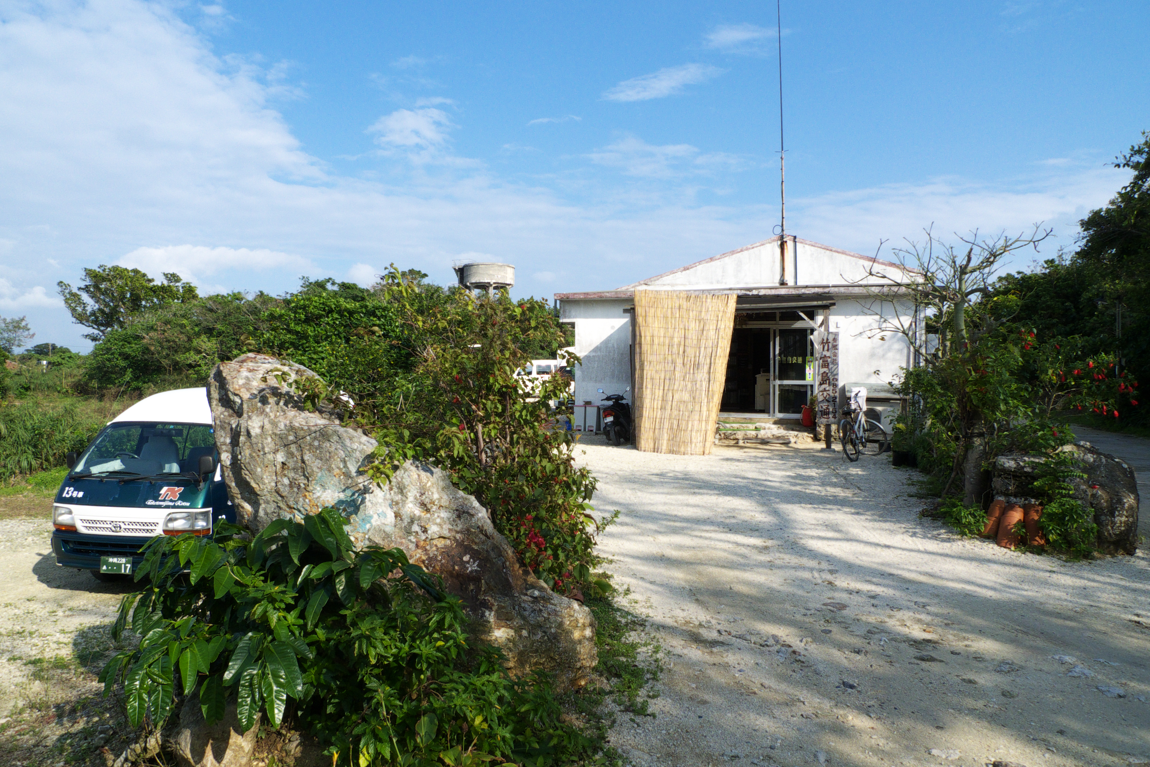 Taketomijima Kotsu headquarters in Taketomi Town, Okinawa Prefecture, Japan